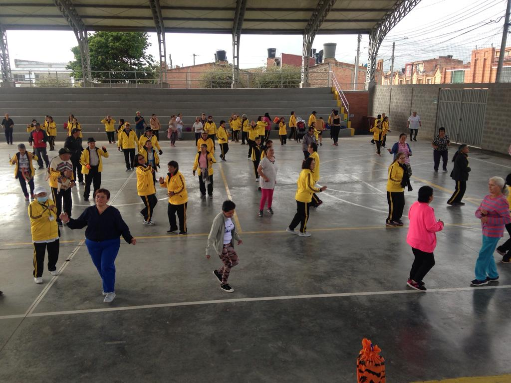 Atención población vulnerable